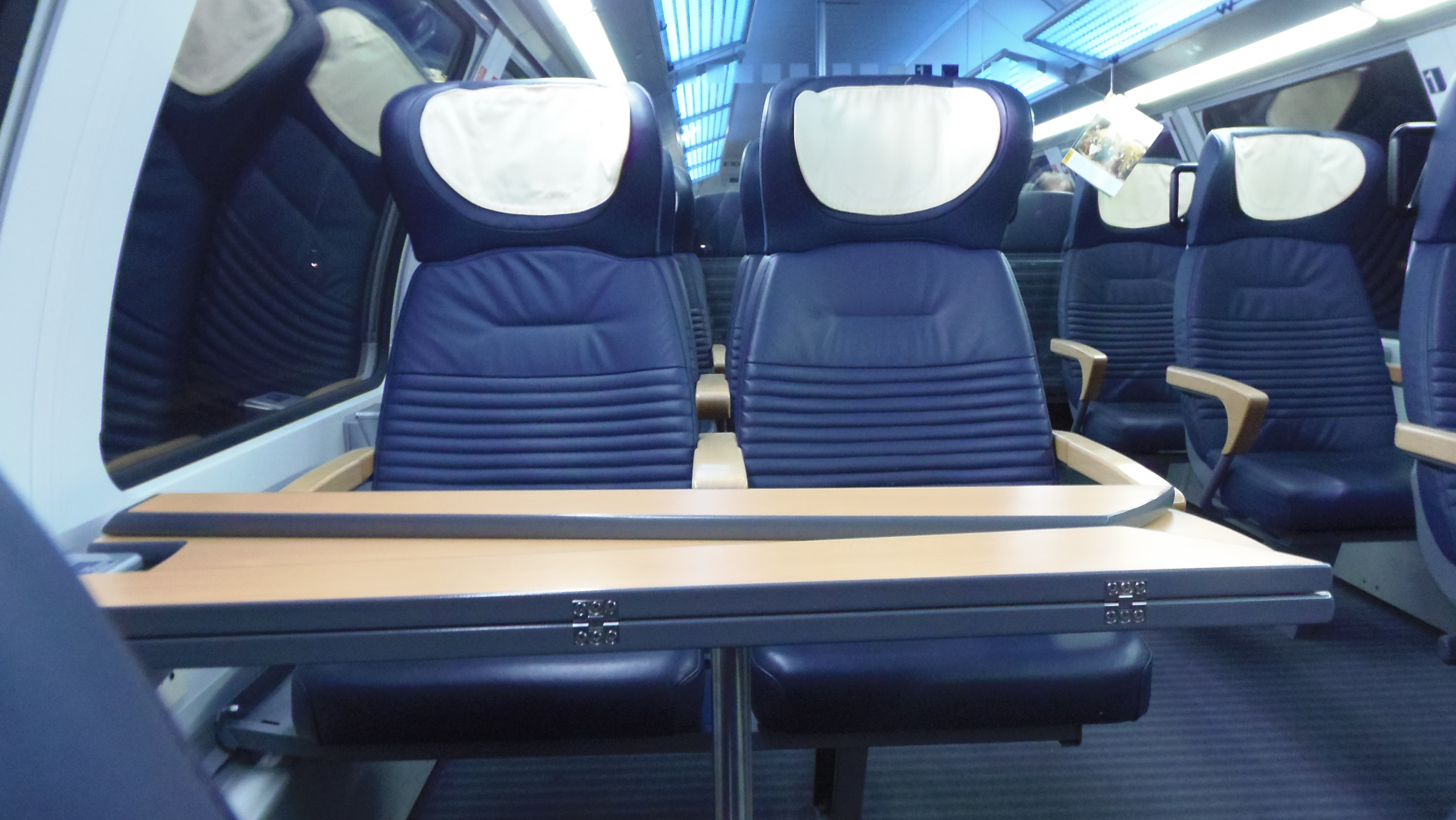 First Class of a Bombardier double-decker carriage